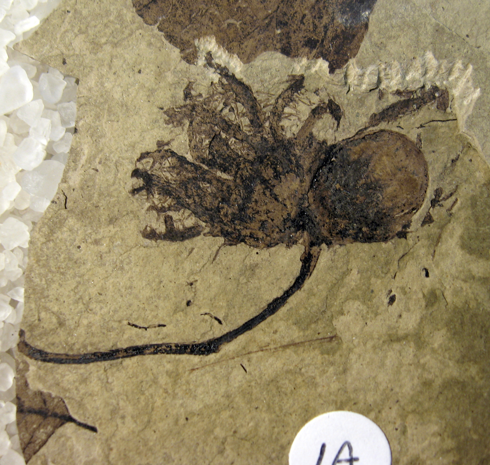 Holotype (part) of the extinct Corylus johnsonii. Photographed after description. 49.5 Million Years old; "Boot Hill", Klondike Mountain Formation, Republic, Washington, USA. Stonerose Interpretive Center Collection # SR 98-02-01 A.